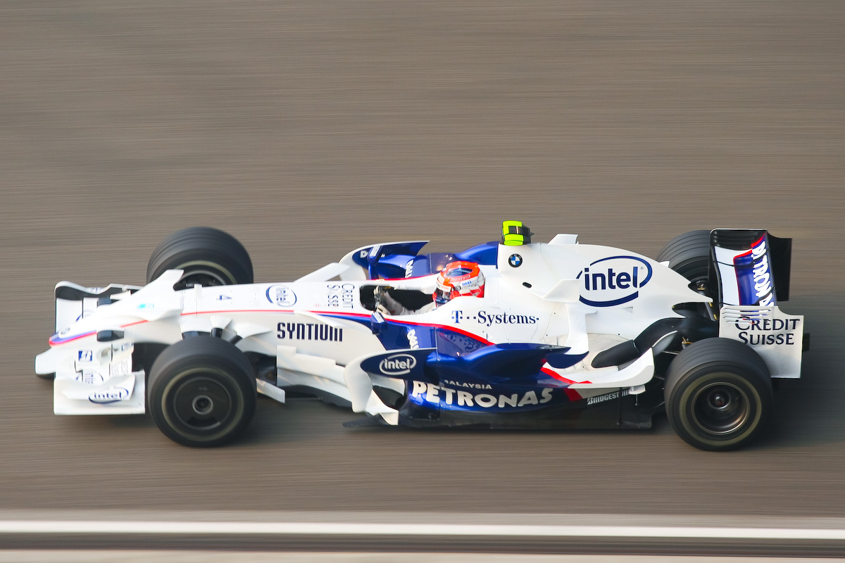 Robert Kubica driving for BMW Sauber at the 2008 Chinese Grand Prix.